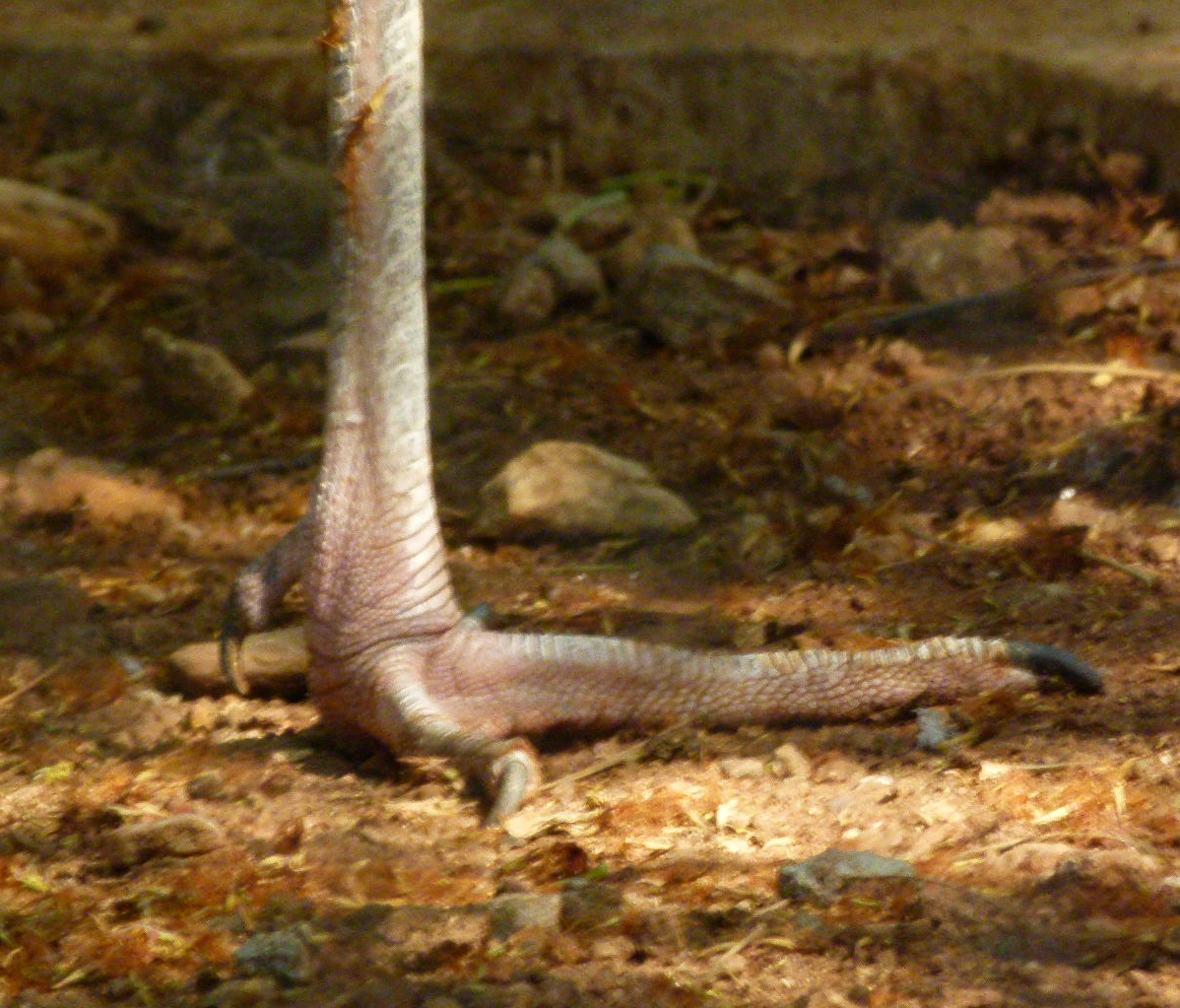 Foot of Sarus crane showing raised hind toe. Mysore Zoo.